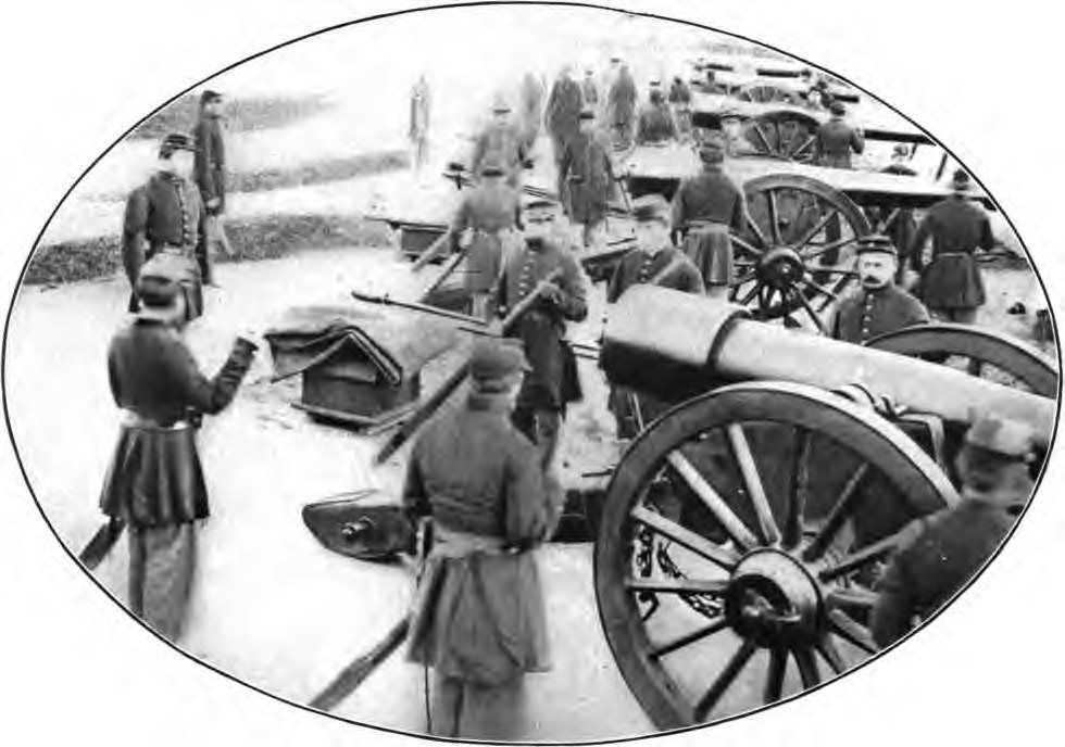 A photograph of atillery gun crews at Fort Lyon Virginia.